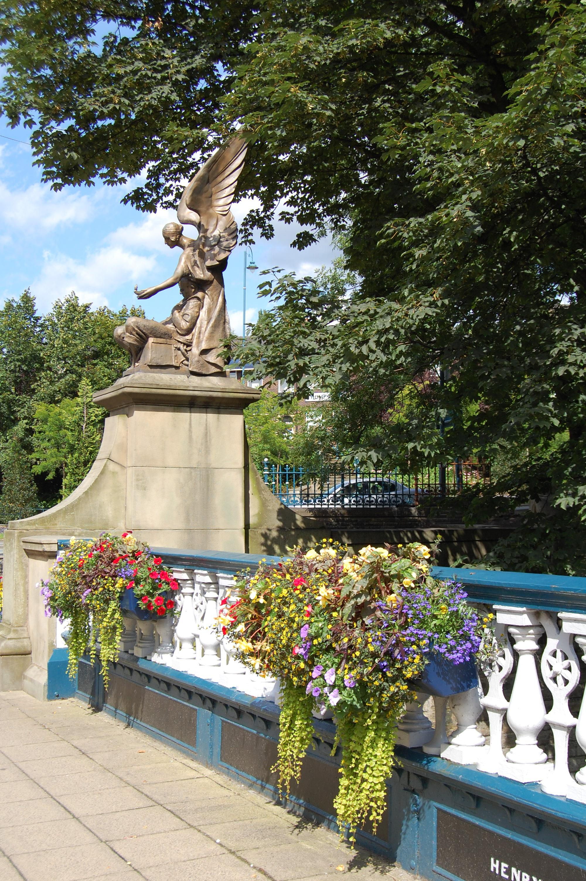 Victoria Bridge on Trinity Street, Stalybridge was built in 1867. It crosses the River Tame.